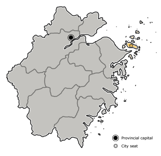 The prefecture-level city of Zhoushan is highlighted on this map of Zhejiang province, People's Republic of China.